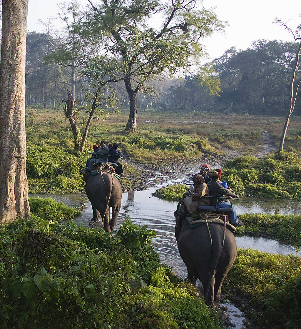 Jaldapara Wildlife Sanctuary is a protect park situated at the foothills of Eastern Himalayas in Alipurduar Sub-Division of Jalpaiguri District in West Bengal and on the bank of river Torsa and have an area of 141 km² and altitude of 61 m. Jaldapara, the vast grassland with patches of riverine forests was declared a sanctuary in 1941 for protection of the great variety flora and fauna, particularly one-horned rhinos, an animal threatened with extinction.